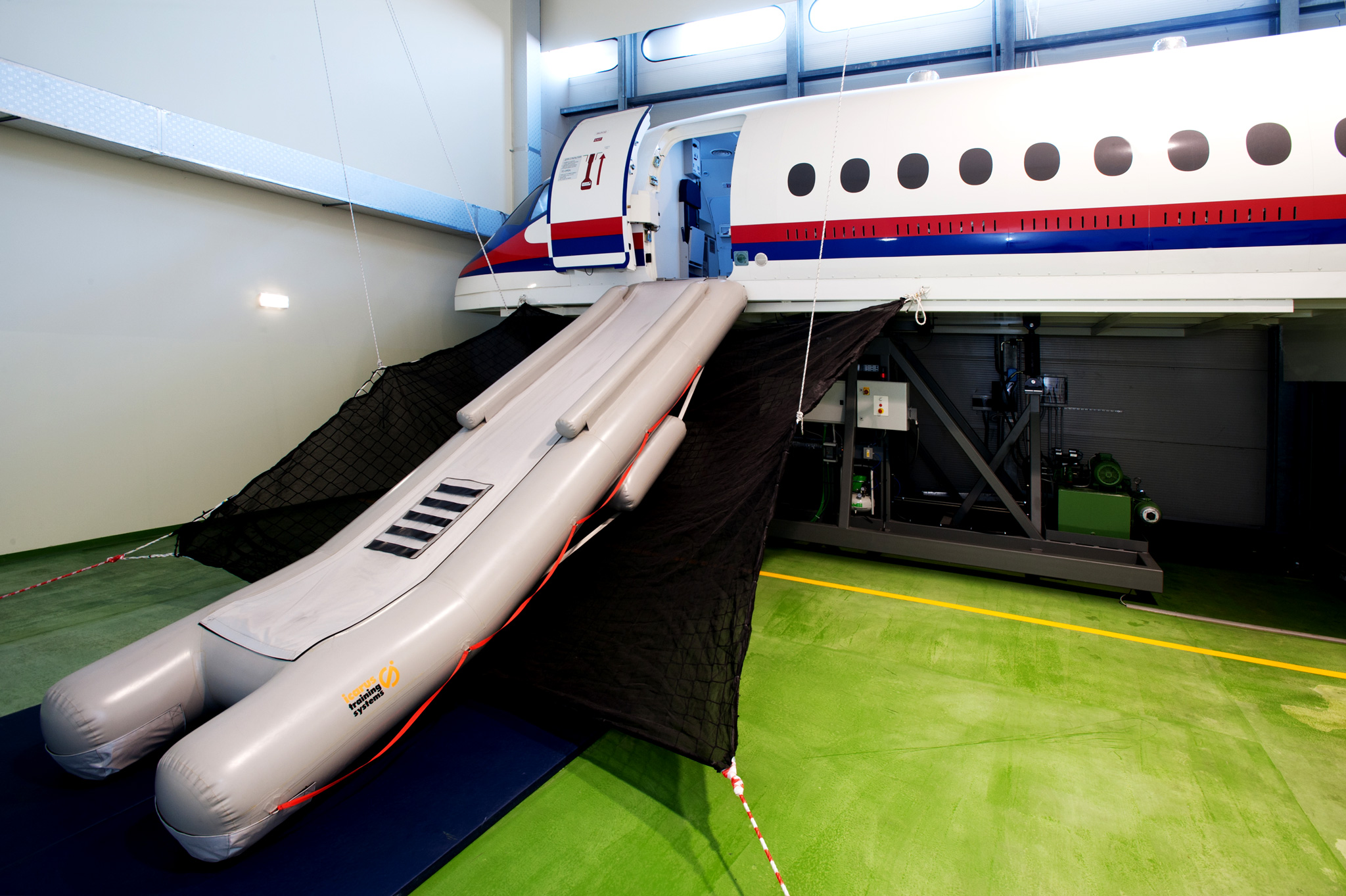 SSJ100_CEET_1